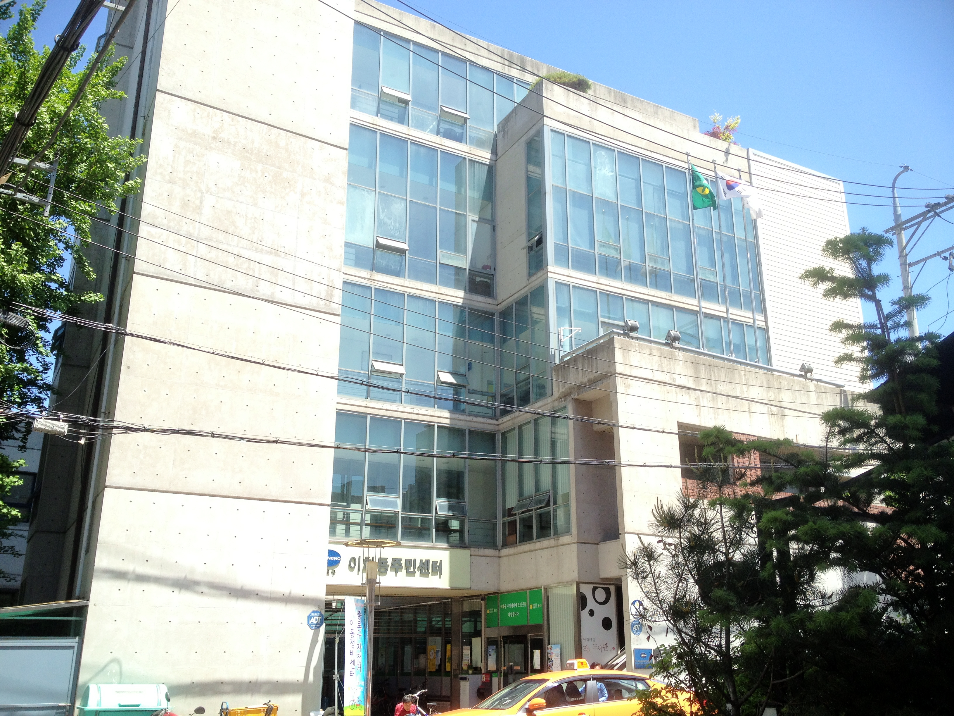 Ihwa-dong Comunity Service Center(Jongno-gu)